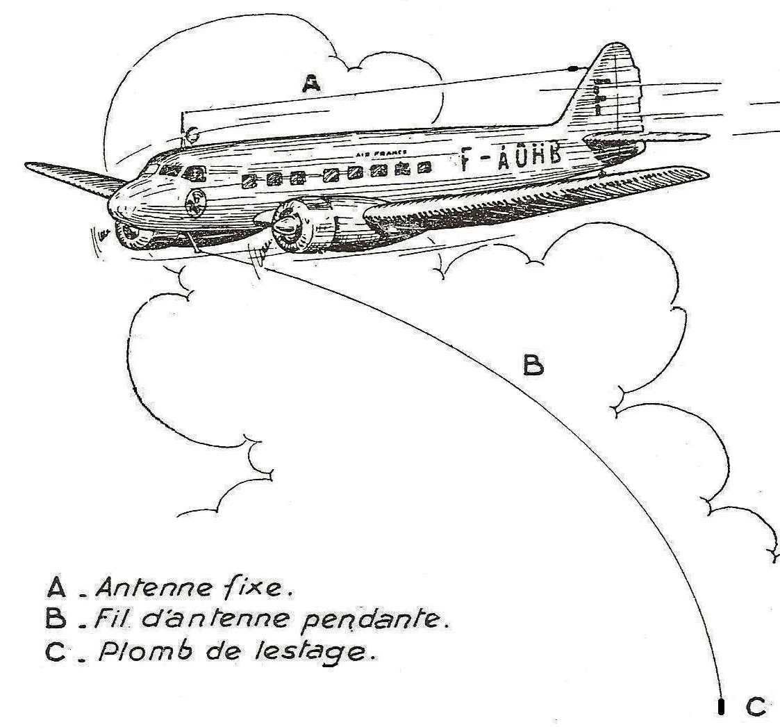 Aircraft F-AOHB. Before the 1970s, aeronautical communications in radiotelegraphy were in the band from 325 kHz to 405 kHz. In flight, a pendant antenna B 120 meters long at 450 meters was unrolled to establish radio communications. Near the ground this antenna B is rewound on a crank reel. At the end of the hanging antenna, a ballast lead C bears the radio call sign of the aircraft. And the fixed antenna A on the fuselage is used permanently. 1,800 meters intercontinental maritime stations for the exchange of correspondences at sea. (166.66 kHz) then (on 143 kHz) 900 meters wavelength of the aeronautical service in radiotelegraphy (dirigible balloons, aircraft). (333.33 kHz) 600 meters Distress and call wavelength in radiotelegraphy (500 kHz) 450 meters wavelength direction finding wavelength (positions of vessels, dirigible balloons, aircraft) (666.66 kHz) then (on 410 kHz)